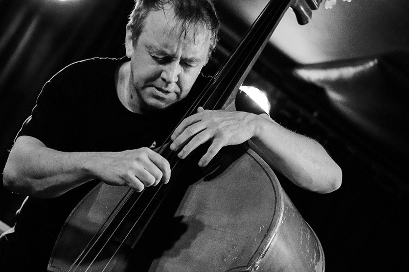 John Edwards in Aarhus, Denmark 2018. Performing with Julie Kjær (s) and Steve Noble (d).